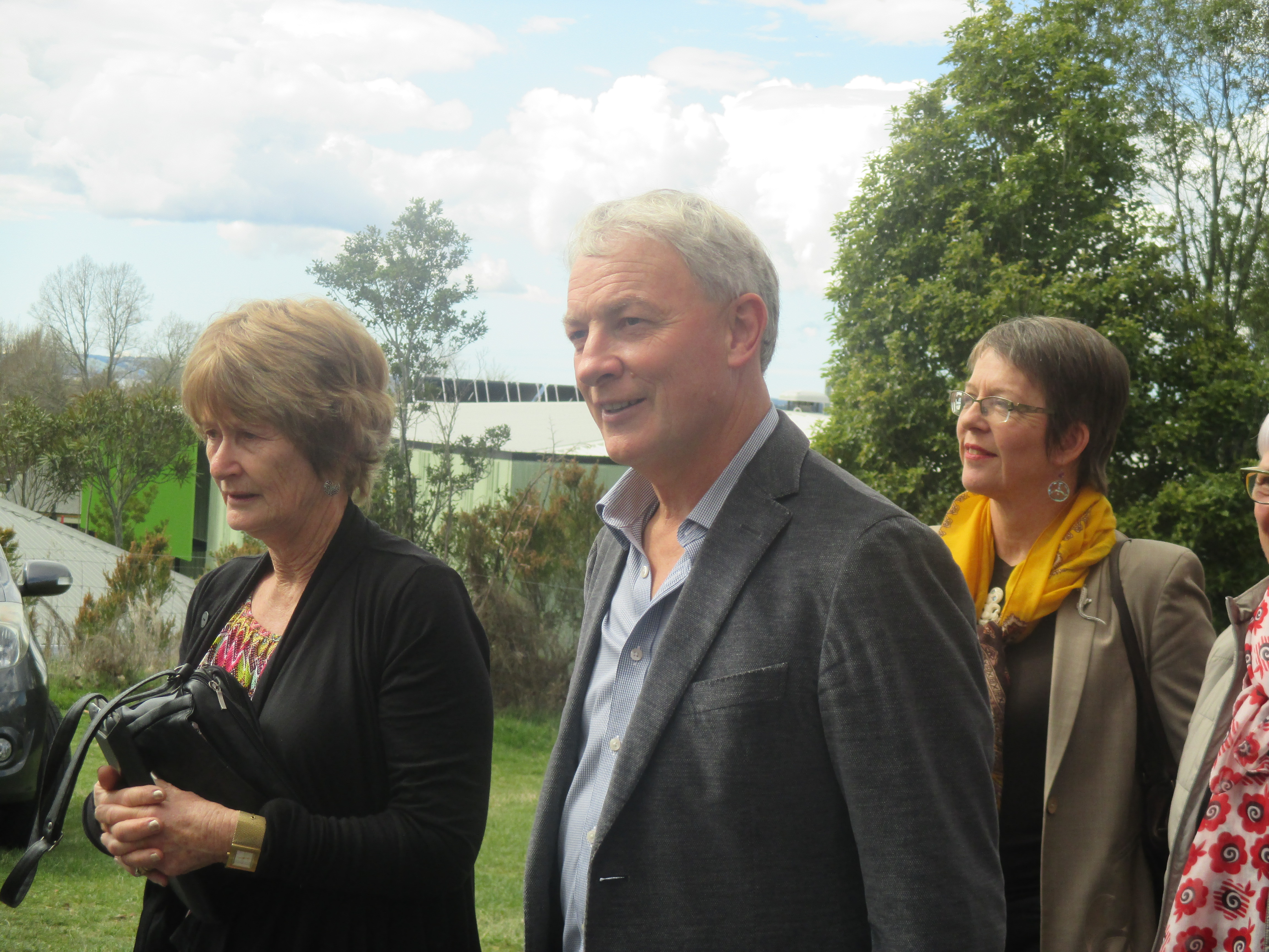 Photograph of Phil Goff, next to Celia Wade-Brown (right). Photo taken at the 15 Year Anniversary Celebration of the Ikeda Hall Peace Park in Rotorua, New Zealand. The celebration was held on 27 September 2015, and was attended by several politicians, including Celia Wade-Brown (Mayor of Wellington), Steve Chadwick (Mayor of Rotorua), and Phil Goff (Labour MP).